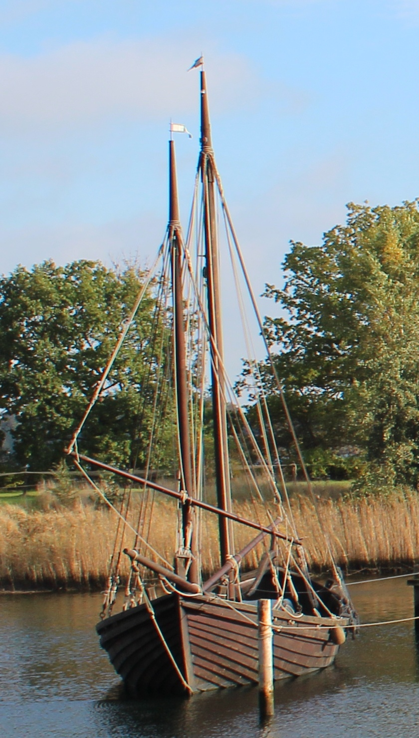 Reconstruction of Bredfjedskibet named "Sophie" at Middelaldercentret in Denmark